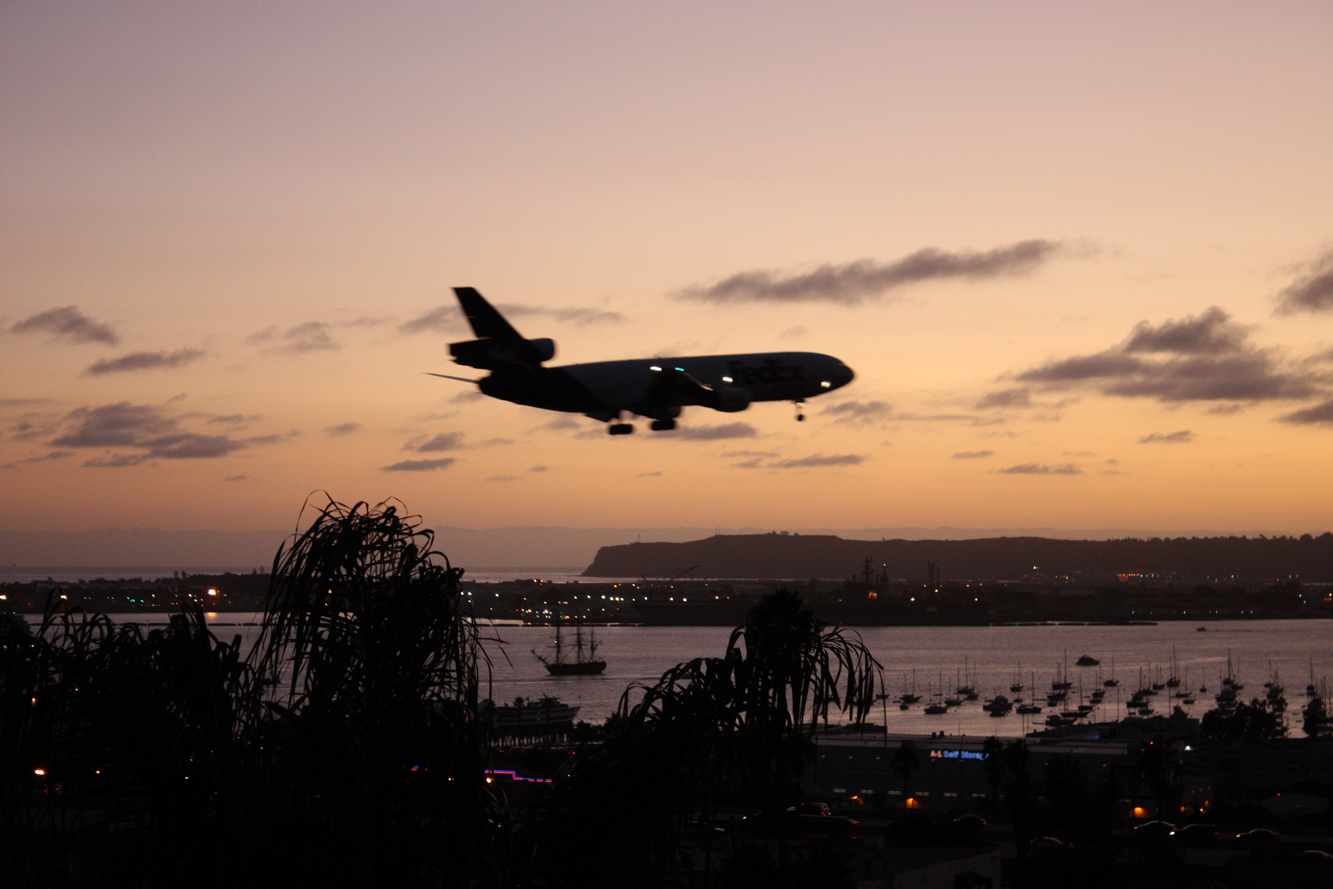 The replica H.M.S Surprise coming in to dock at the San Diego Maritime Museum.